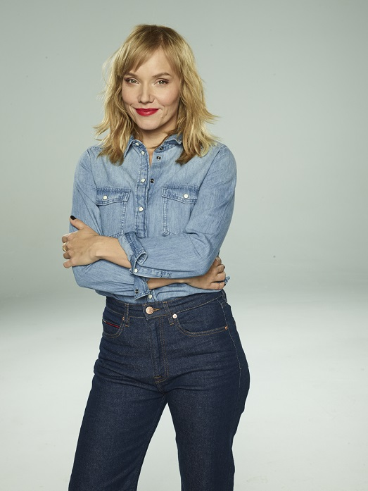 Polish actress Roma Gąsiorowska